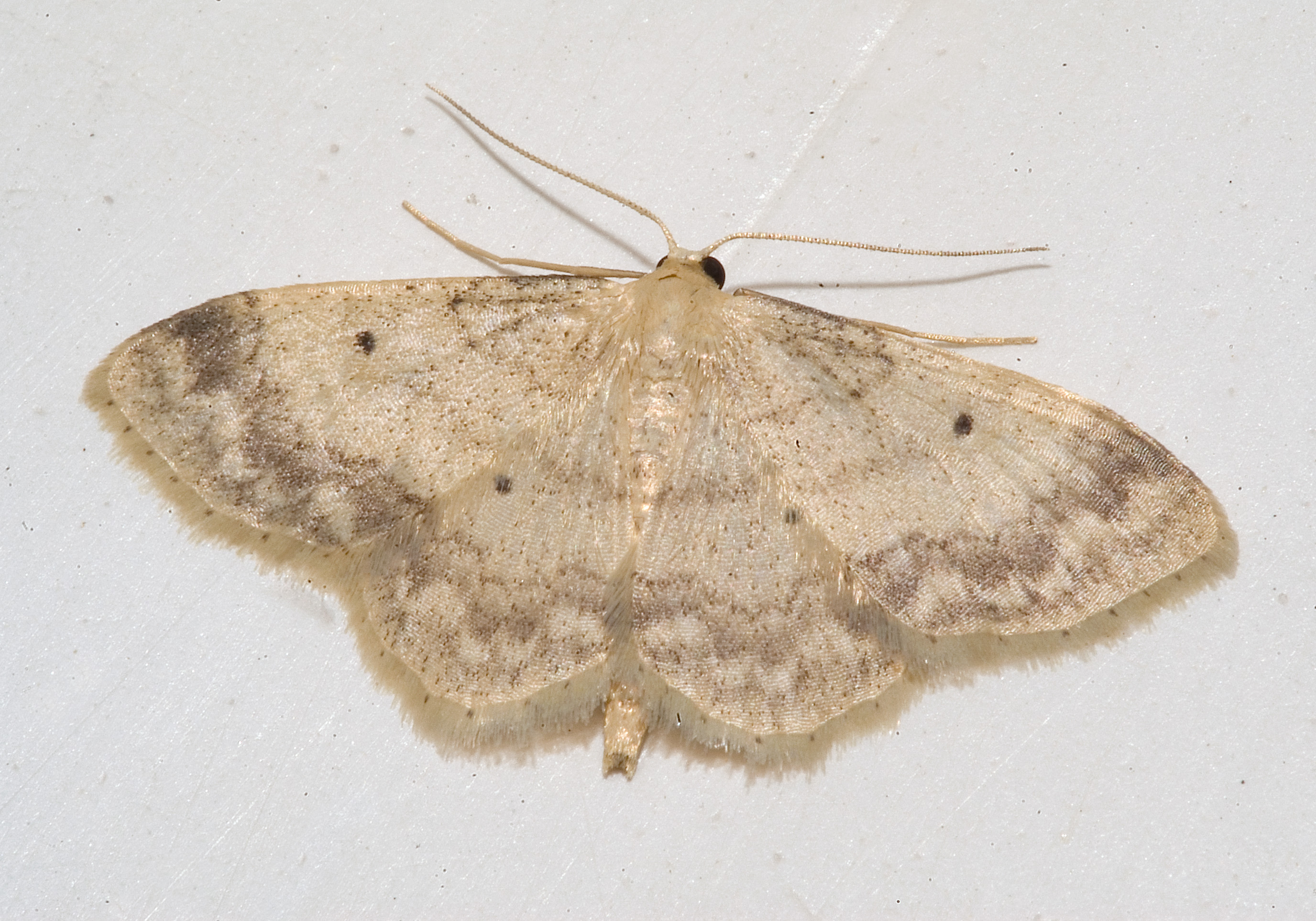 Please report references to kulacgmx.at.